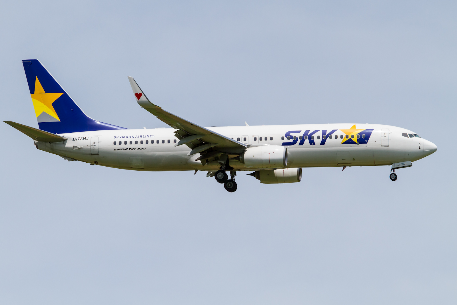 Aircraft: Boeing B737-86N JA73NJ(cn: 39405/3845) Airline: Skymark Airlines - SKY Headquarters: Ohta-Ku Tokyo, Japan 16/07/2012 Tokyo-Narita Airport(RJAA), Japan